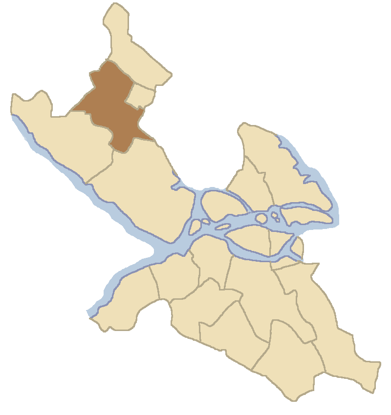 Map showing the location of the borough of Spånga-Tensta with the borders used between 1998 and 2006.